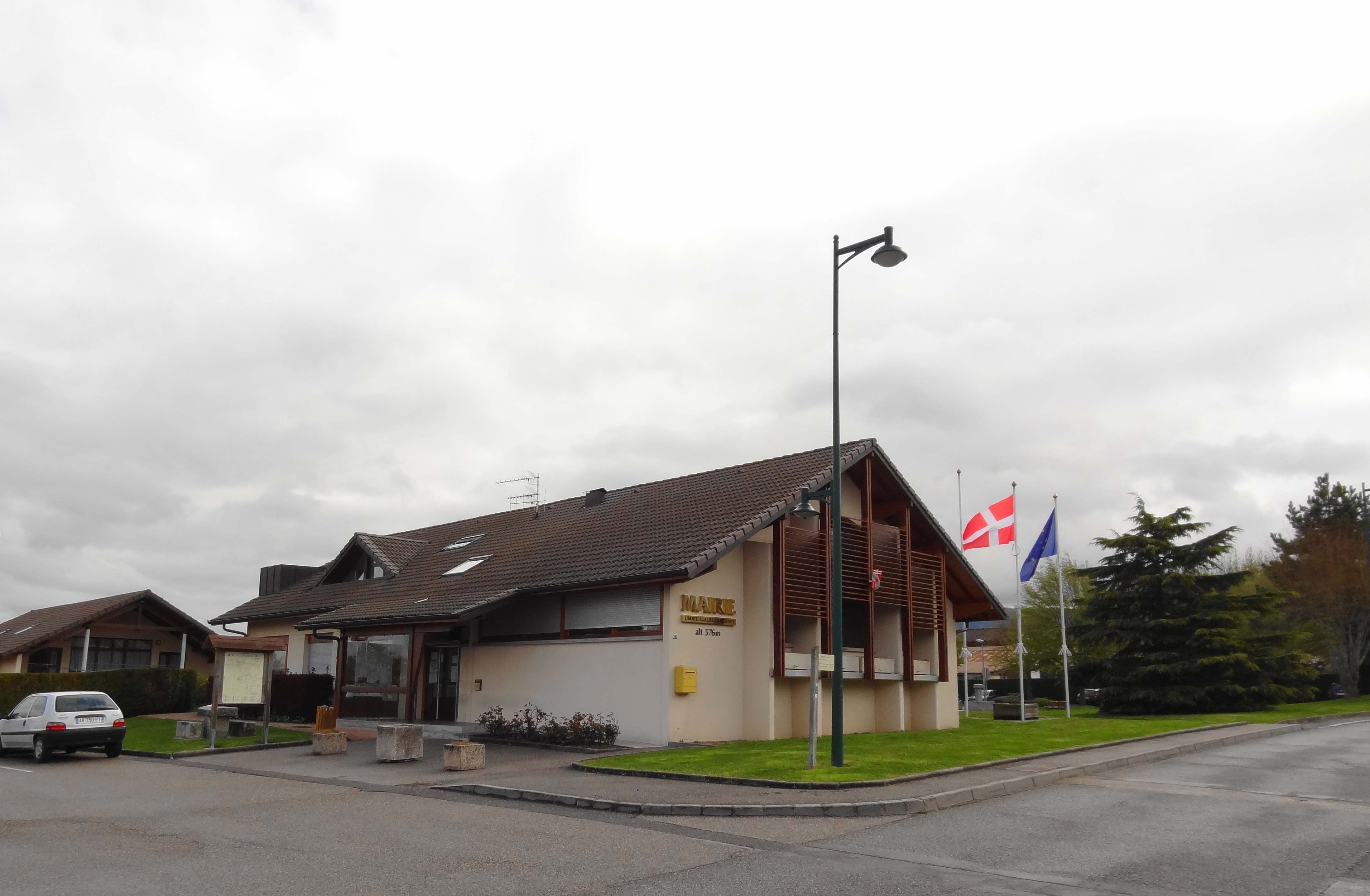 Feigères city hall (576m), Haute-Savoie county